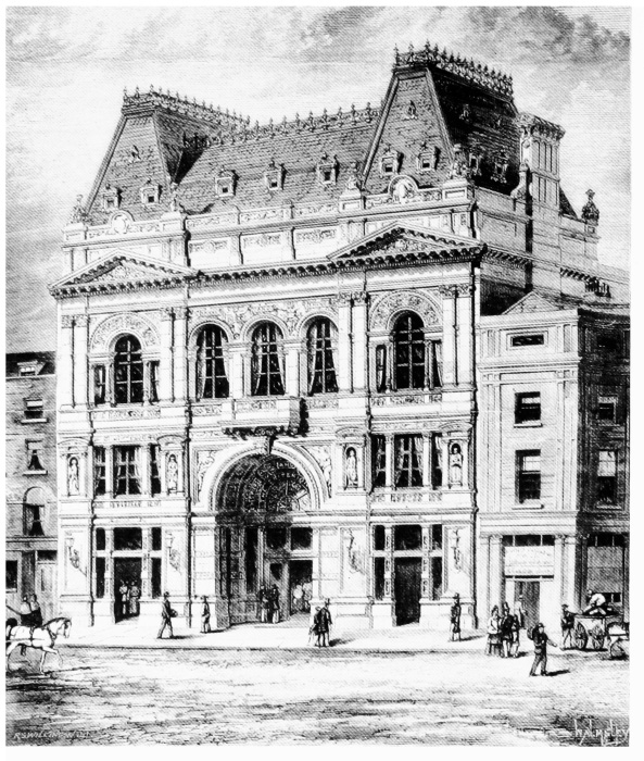 Original Criterion Building with Restaurant and Theater as built in 1873